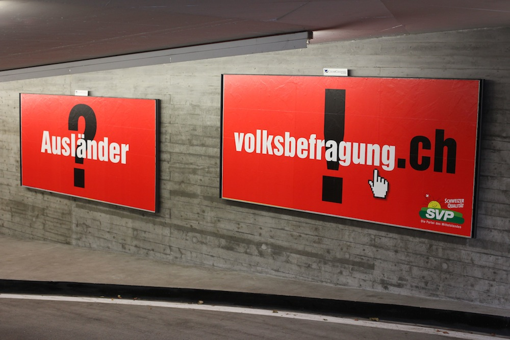 Bills of the SVP (party) during the referendum about foreigners and asylum in 2010, St. Gallen, Switzerland